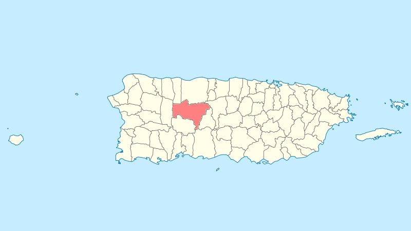 Municipal locator of Puerto Rico